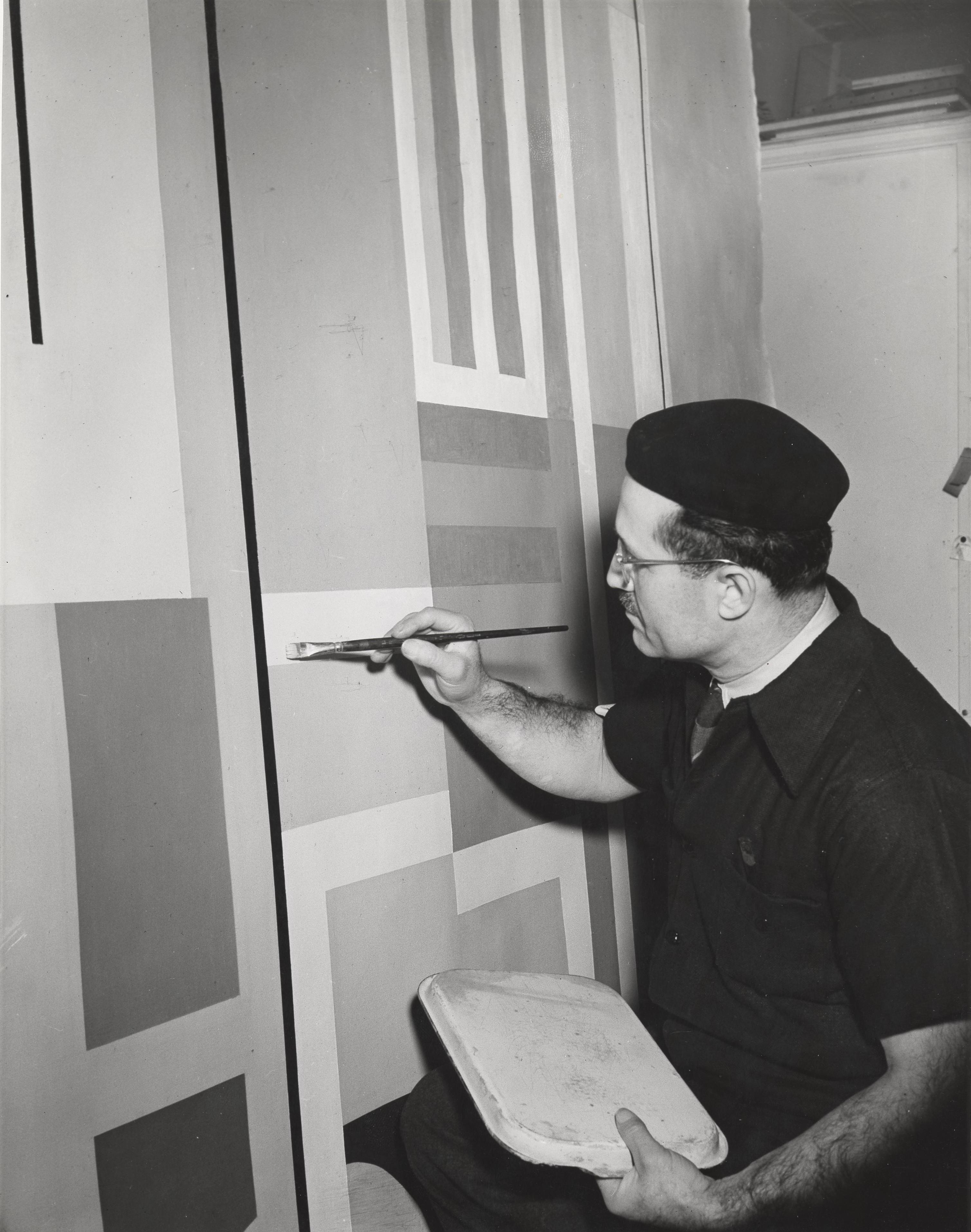 Jean Xceron, American artist